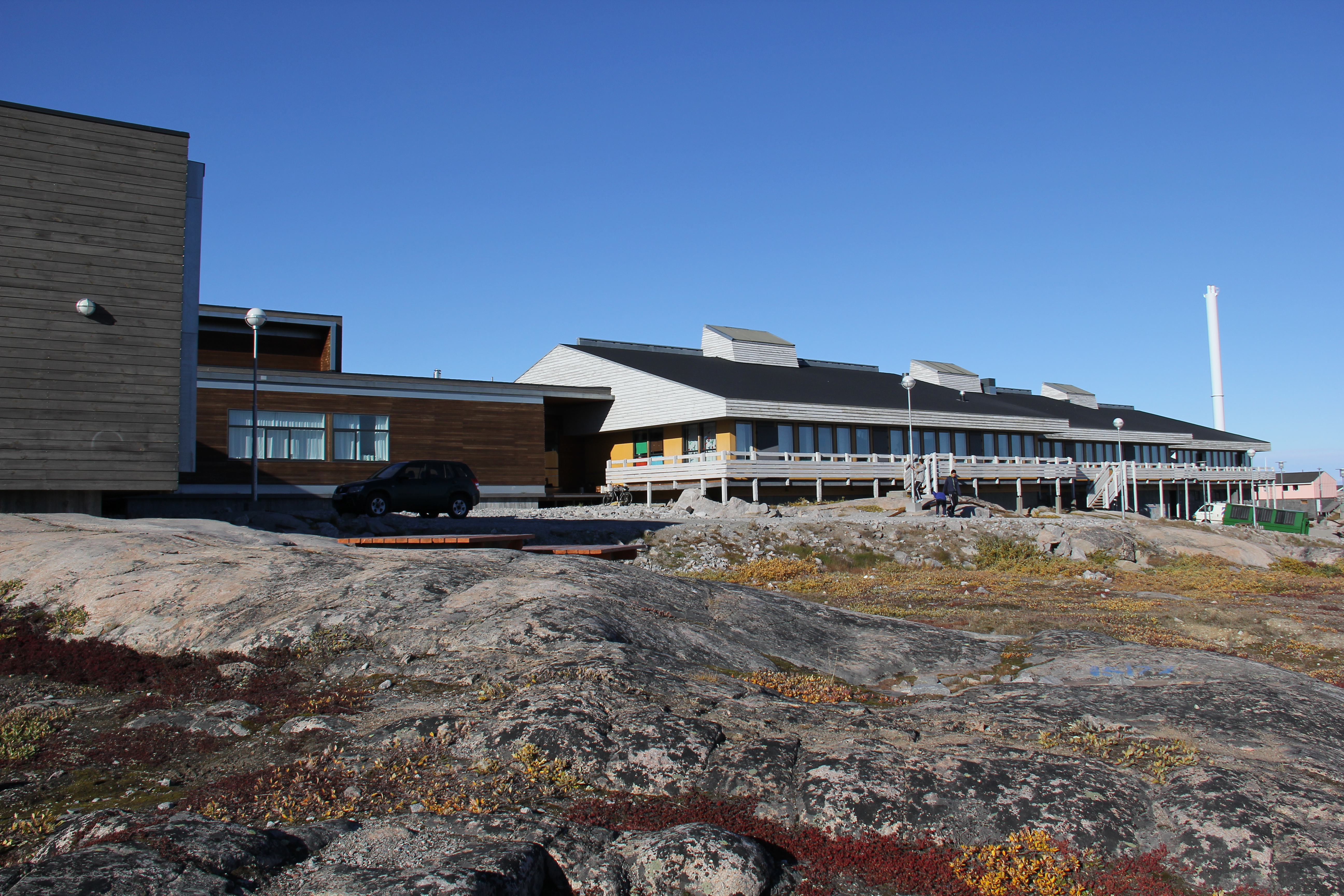 The school Atuarfik Jørgen Brønlund, Ilulissat